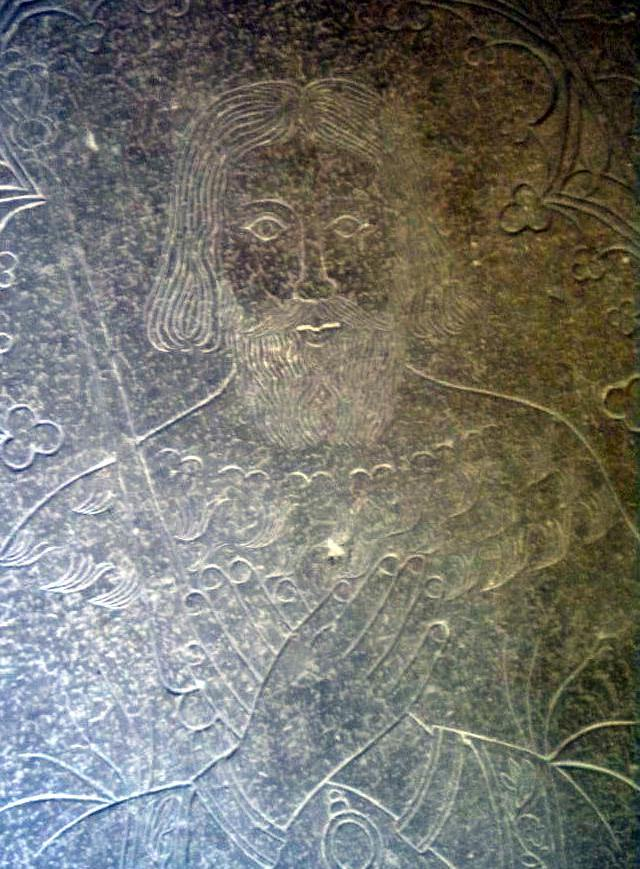 Sculpted image (16th century) of King Eric (X) the Survivor of Sweden on his grave at Varnhem ChurchPlace: Axvall, Sweden